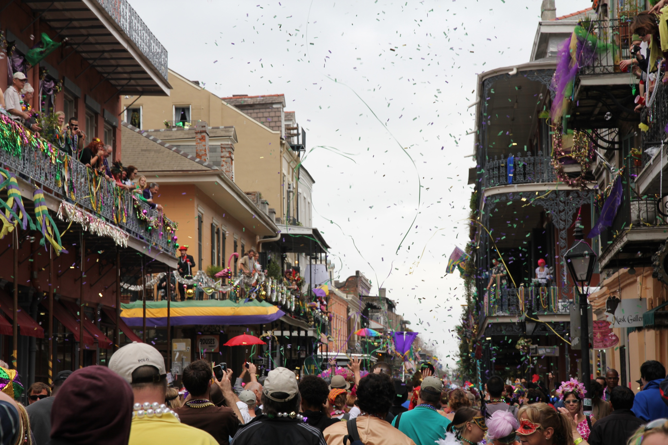 Mardi Gras in the French Quarter, New Orleans